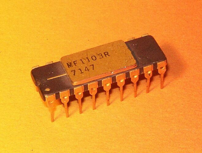 Micro MF1103R